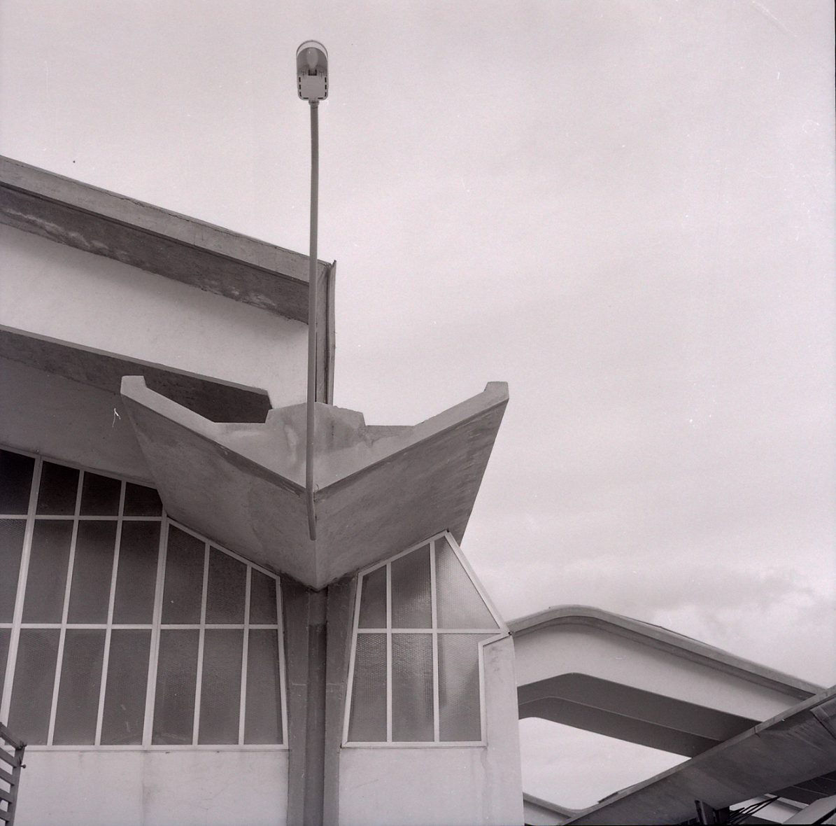 Palermo. CEDIS factory realized by architect Marco Zanuso in 1954.